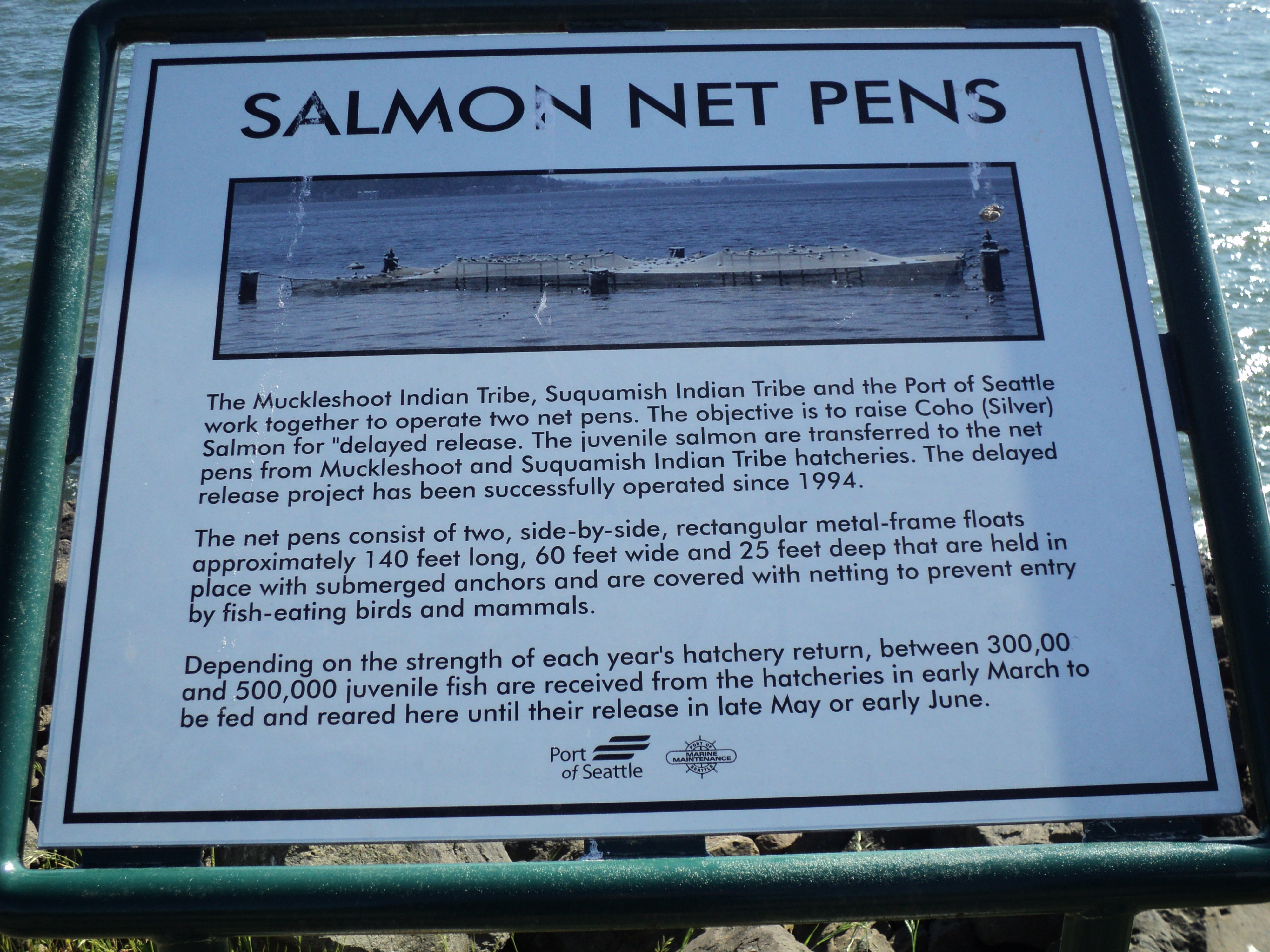 Plaque in Elliott Bay beside the Grain Terminal detailing partnership between the Port of Seattle and the Muckleshoot and the Suquamish Indian tribes to operate holding pens for juvenile coho (silver) salmon. The juvenile salmon are transferred from tribal hatcheries to the holding pens to be reared for several months and then released into the wild.